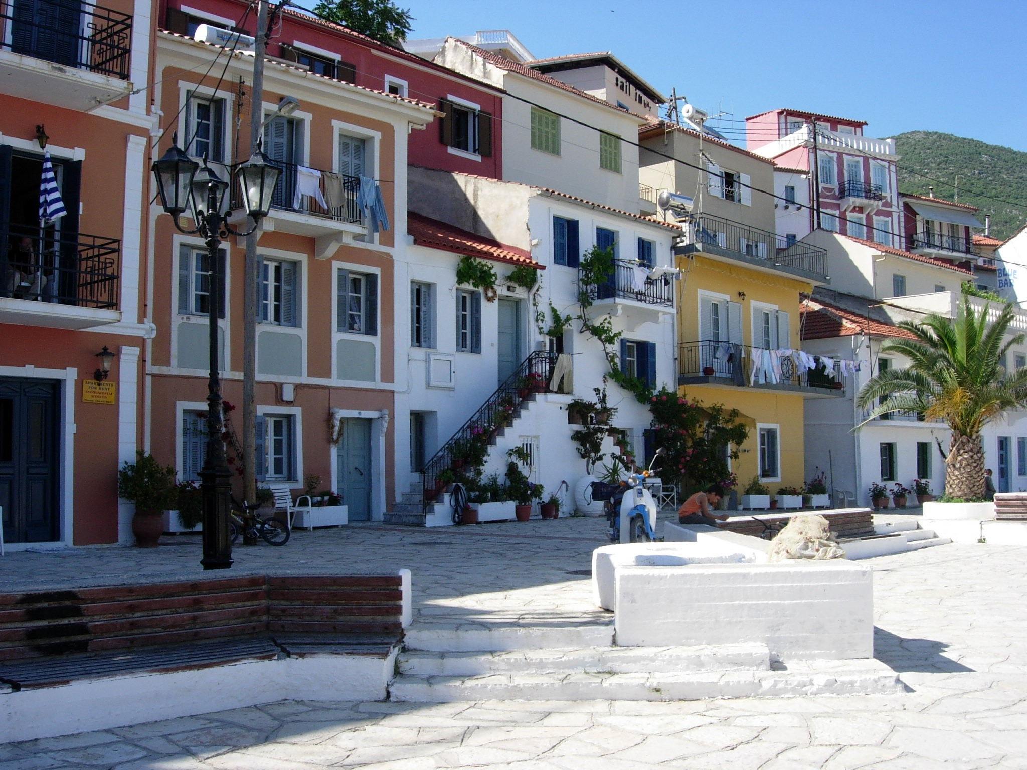 Houses in Parga